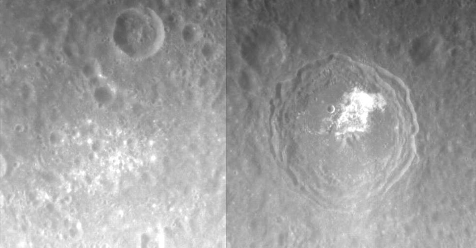 Mosaic showing Theophanes crater on Mercury and hollows within it and to the west of the crater. MESSENGER Narrow Angle Camera images. Approximate north is up. Statistics for the upper right image are: Emission Angle: 14.8 Incidence Angle: 38.0 Latitude: -5.0 Longitude: 217.4 Phase Angle: 52.8